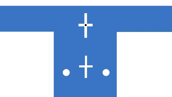 Rebel flag of West Macedonia, 1878